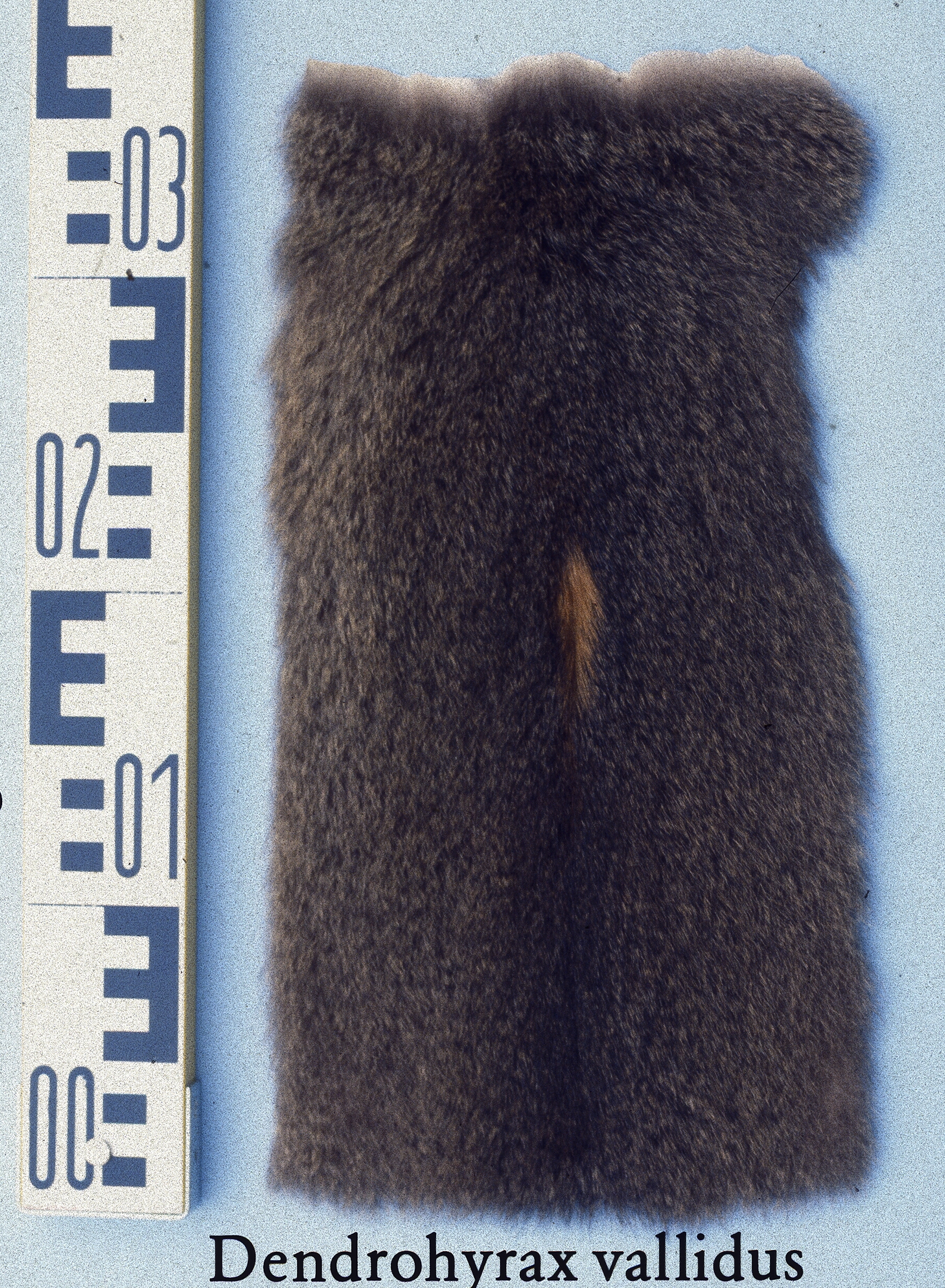 Bush hyrax (Dendrohyrax validus Syn. Dendrohyrax arboreus). Fur skin collection, Bundes-Pelzfachschule, Frankfurt/Main, Germany.